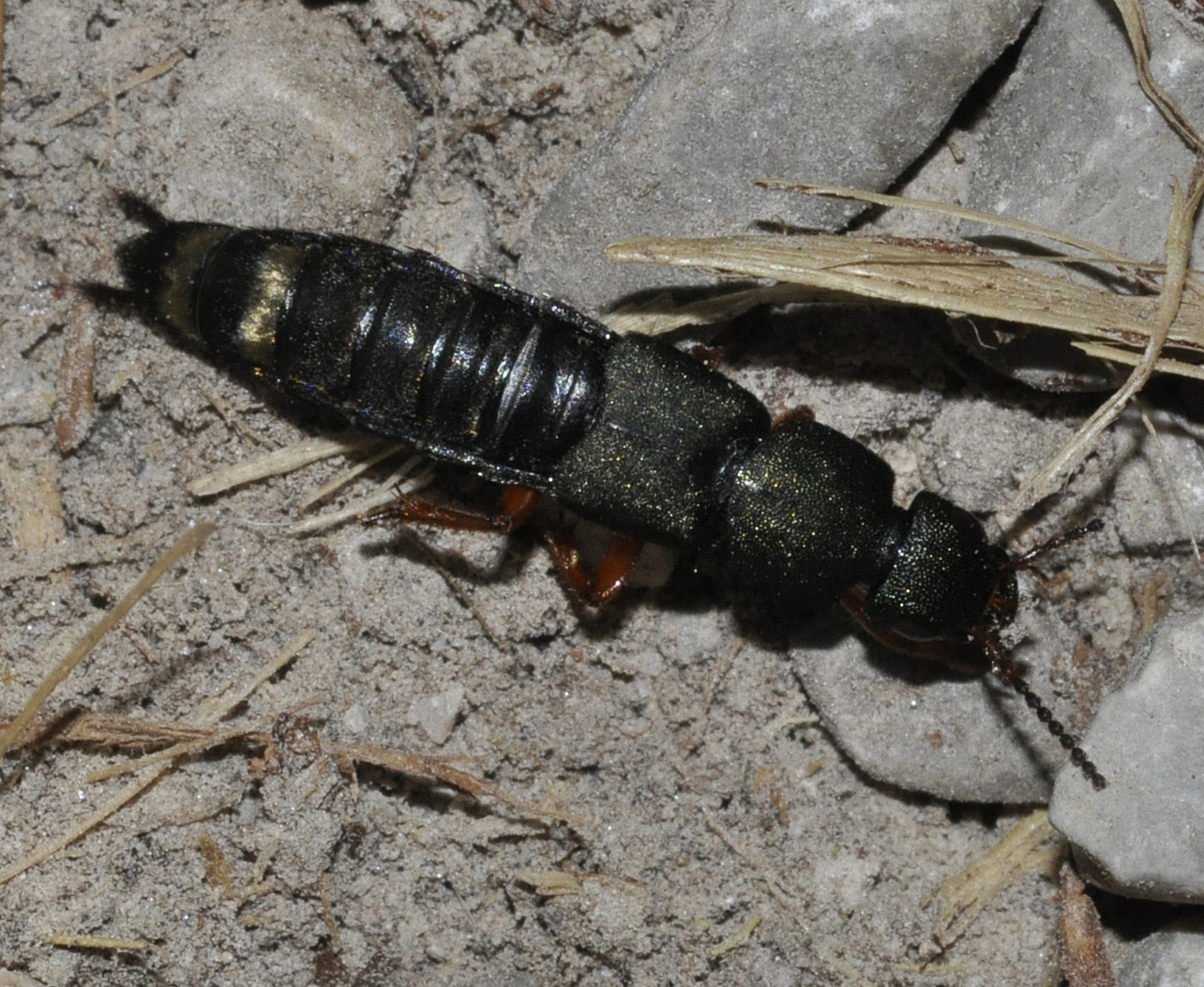 Platydracus fulvipes (Scopoli, 1763). Germany: S Bayern, Walchensee, Fahrenberg/Herzogstand, 1000 m. Mountain forest.